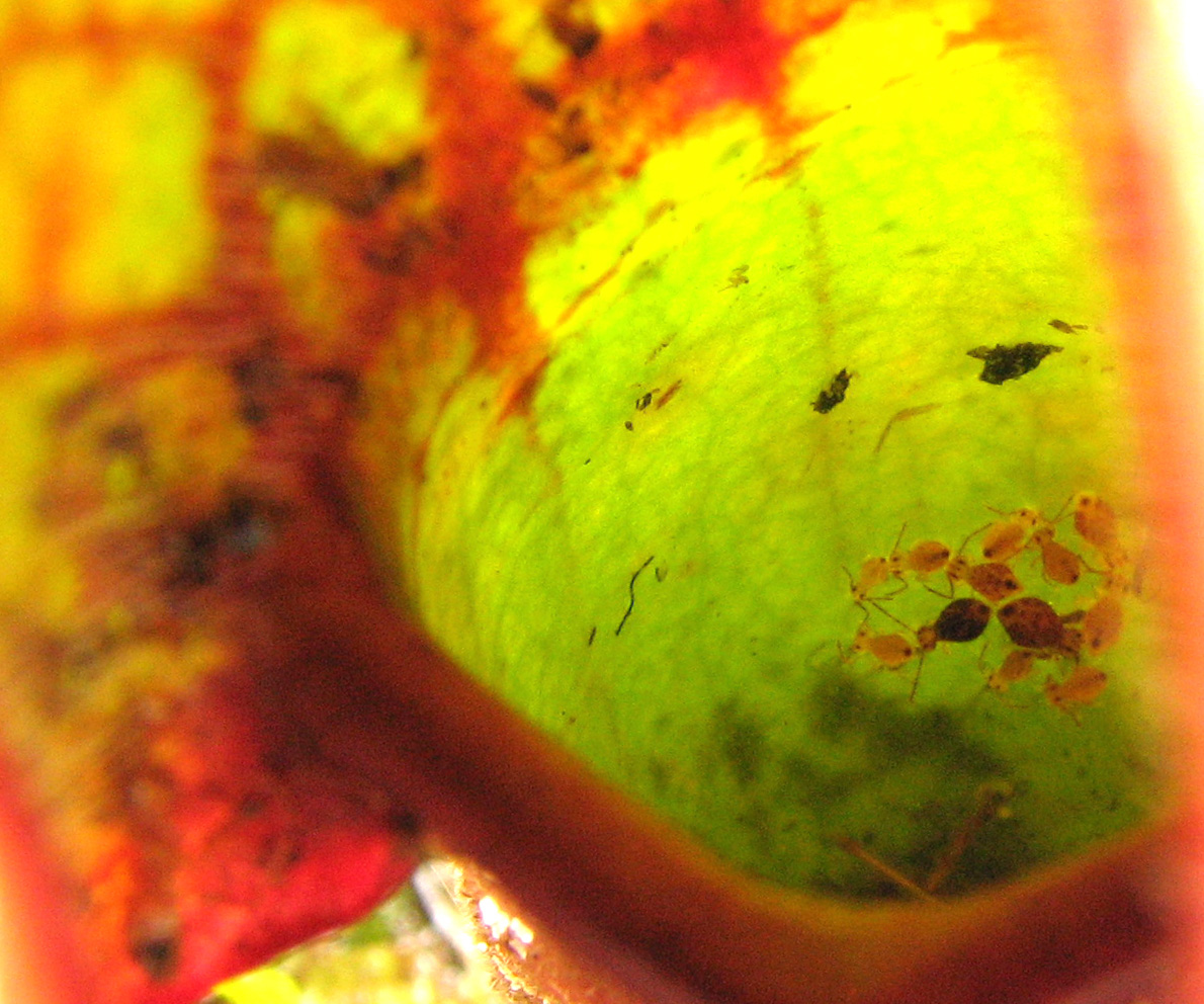 Collembola (Dicyrtomina minuta) trapped inside a leaf of Sarracenia purpurea. Size: 1-2 mm roughly. Pennypack Restoration Trust, Montgomery County, Pennsylvania, USA.